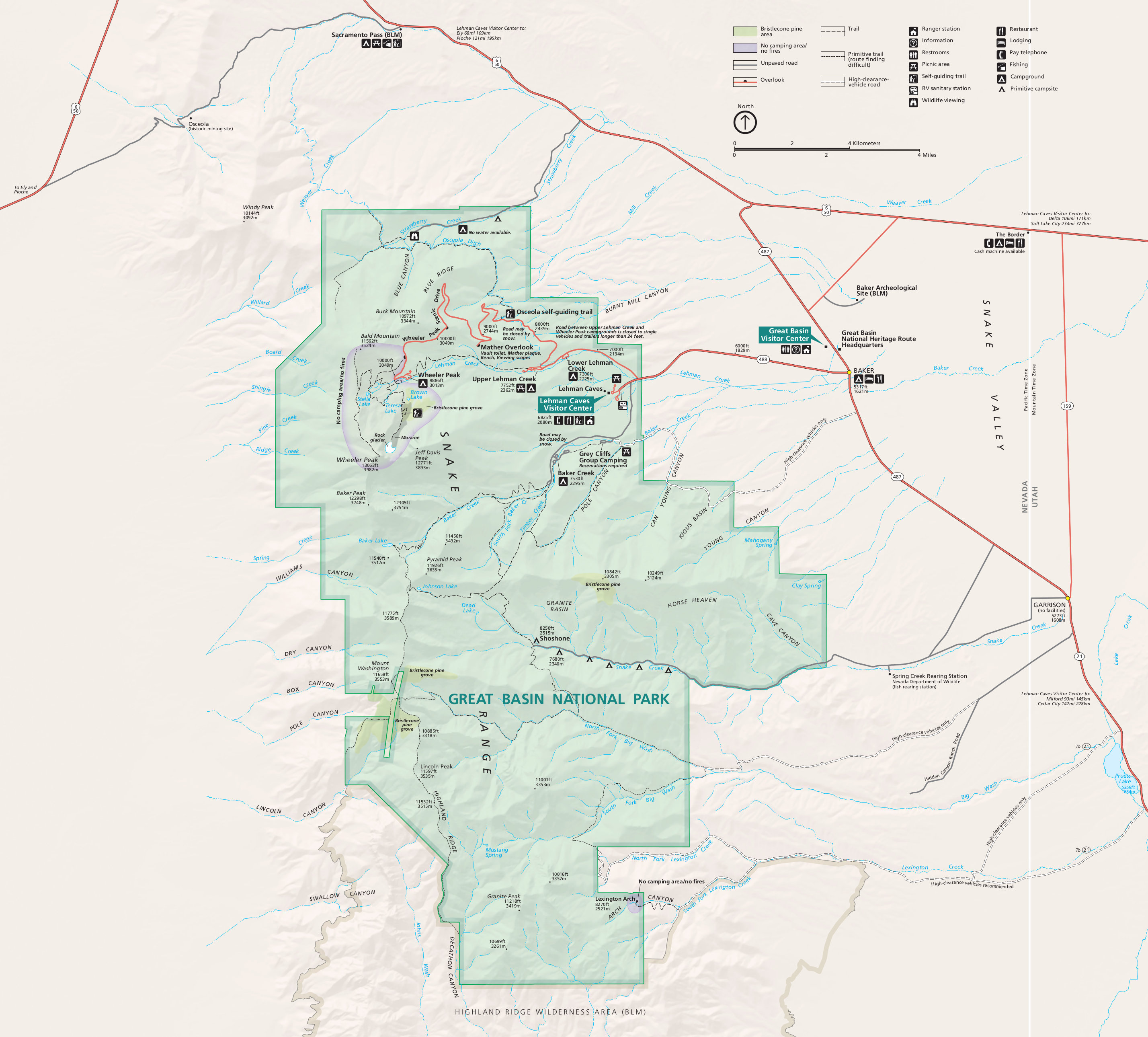 Great Basin map from the park brochure, showing the viewpoints, roads, trails, Wheeler Peak, and Lehman Caves.